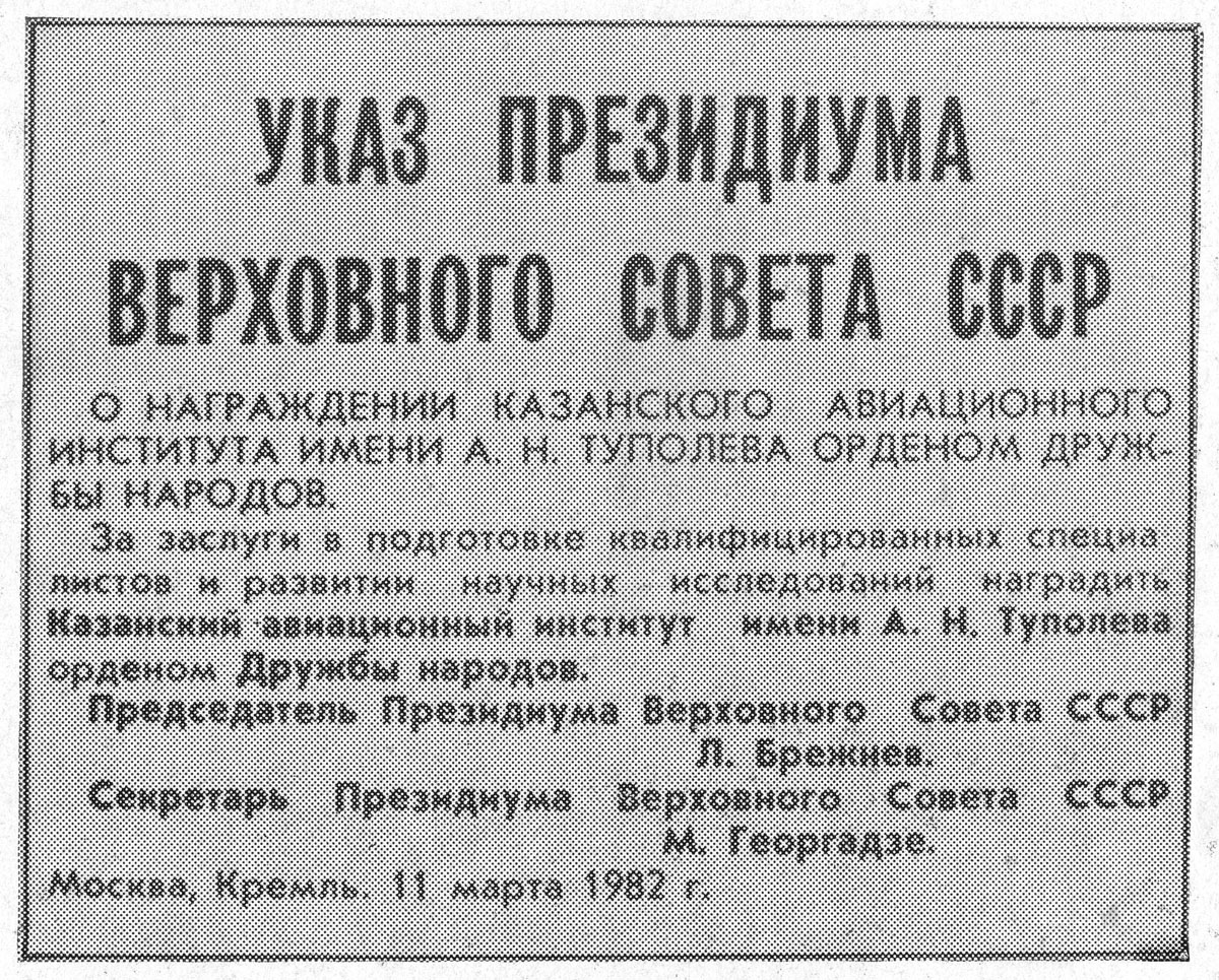 Decree of Supreme Soviet of the Soviet Union for awarding Kazan Aviation Institute with Order of Friendship of Peoples